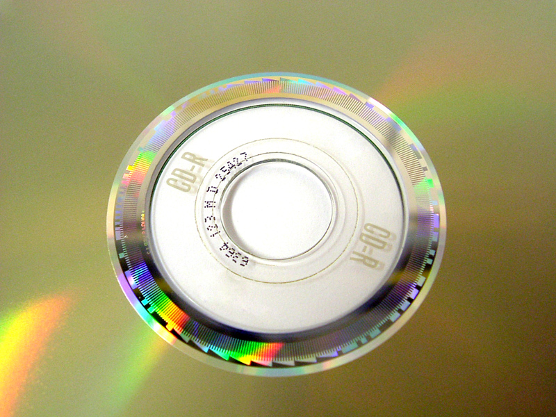 Center hub of a Lightscribe CD-R disc taken by us.